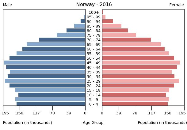 The population pyramid of Norway illustrates the age and sex structure of population and may provide insights about political and social stability, as well as economic development. The population is distributed along the horizontal axis, with males shown on the left and females on the right. The male and female populations are broken down into 5-year age groups represented as horizontal bars along the vertical axis, with the youngest age groups at the bottom and the oldest at the top. The shape of the population pyramid gradually evolves over time based on fertility, mortality, and international migration trends.